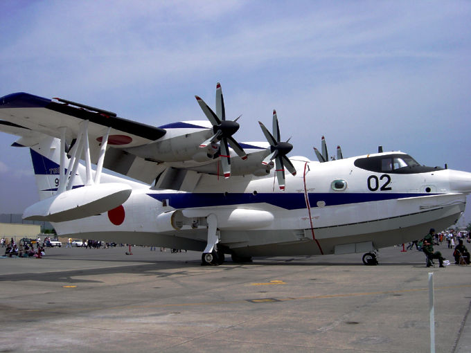 US-1A KAI Flying boat (ShinMaywa US-2),The U.S. military Iwakuni base.